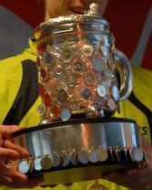 Christian X of Denmark Kongepokal - awarded since 1905 to performers of cross country running in Denmark